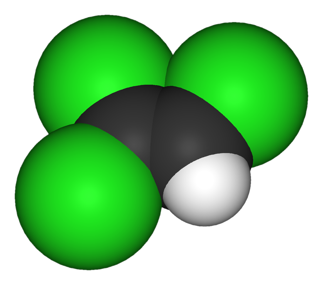 Space-filling model of the chemical compound trichloroethylene